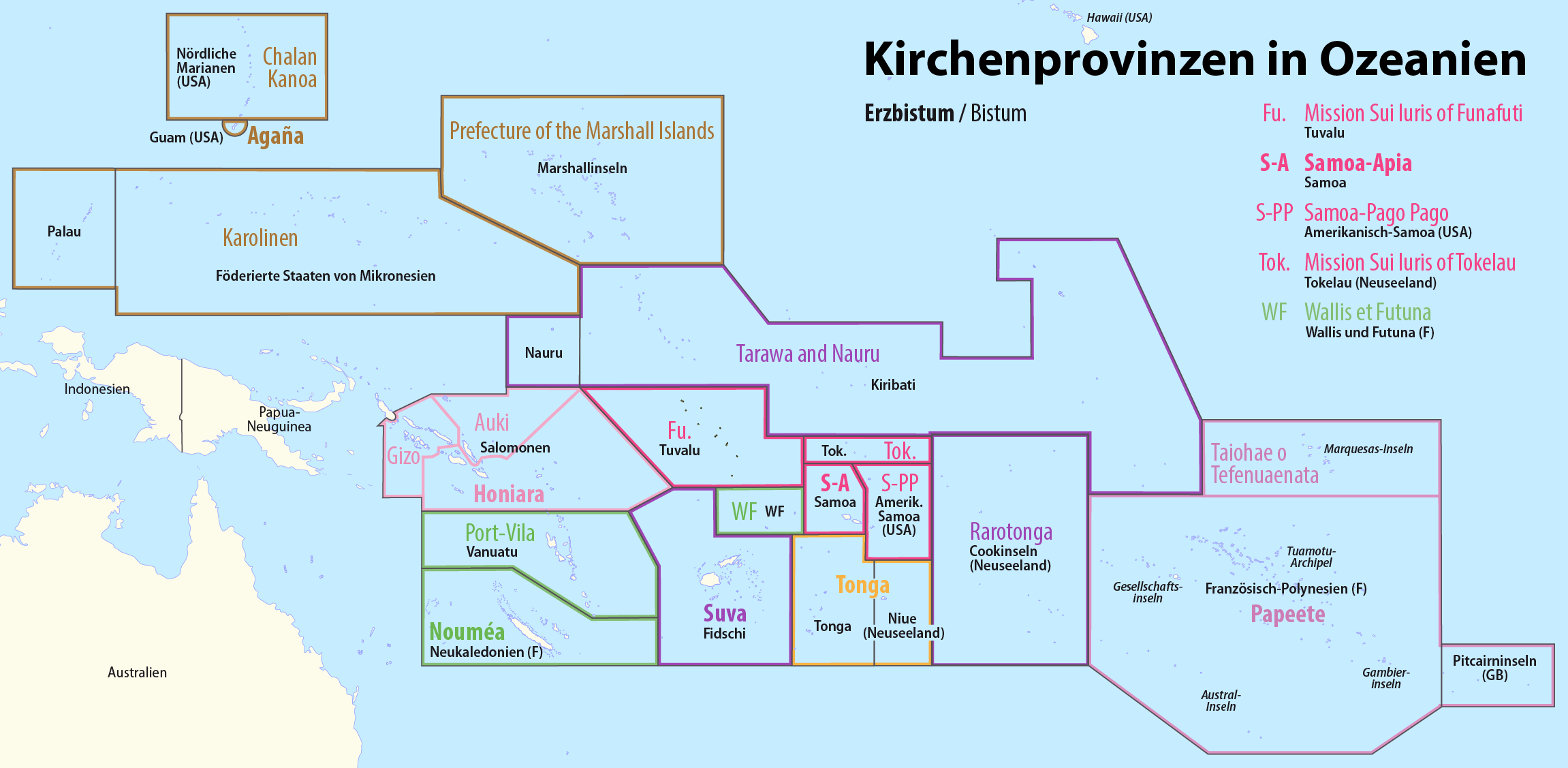 Map of the ecclesiastical provinces and dioceses of the Catholic Church in Oceania